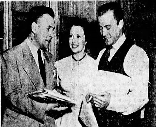 RELIGIOUS FILM PRODUCERS - Paul F. Heard (left), Protestant Film Commission producer, discusses the script of Second Chance with his stars, Ruth Warrick and John Hubbard, on the set at Nassour Studios.